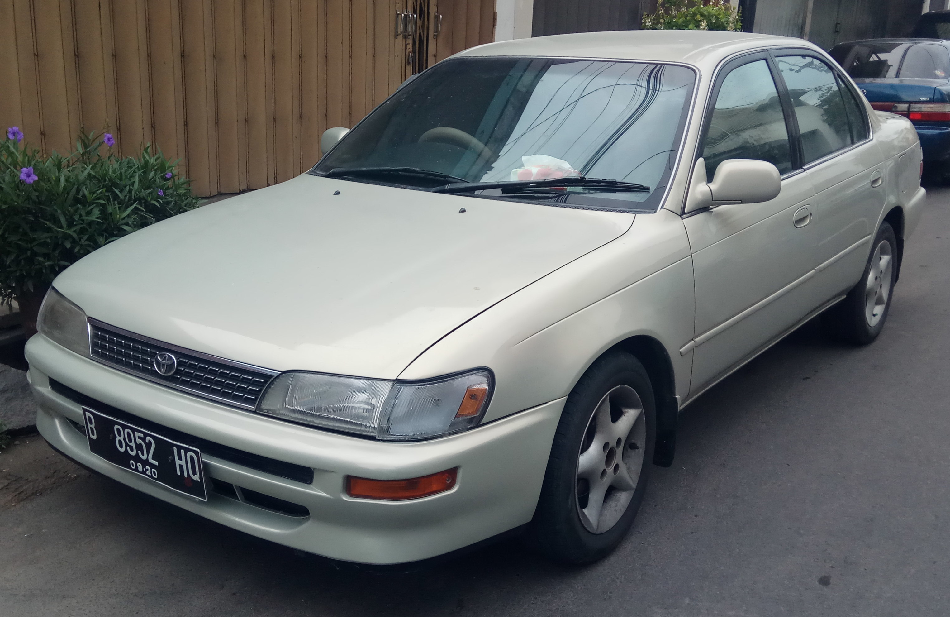 1995 Toyota Corolla 1.6 SE-G photographed in Kediri, East Java, Indonesia.